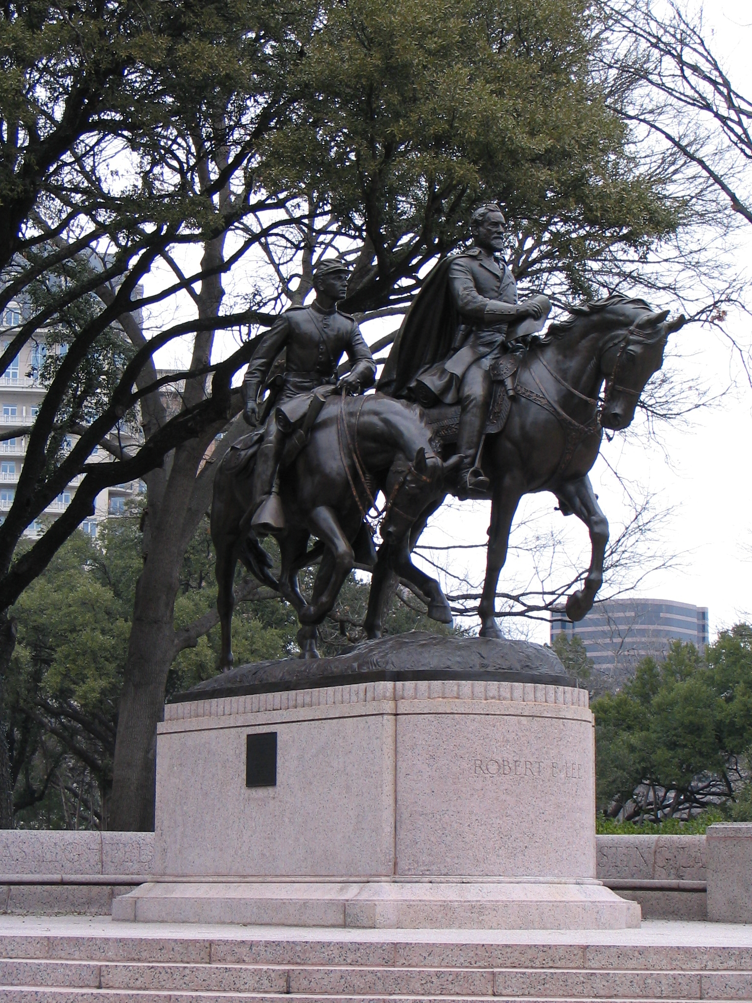 Statue of Robert E. Lee in the Turtle Creek neighborhood of Dallas, Texas taken by me on January 24, 2007.